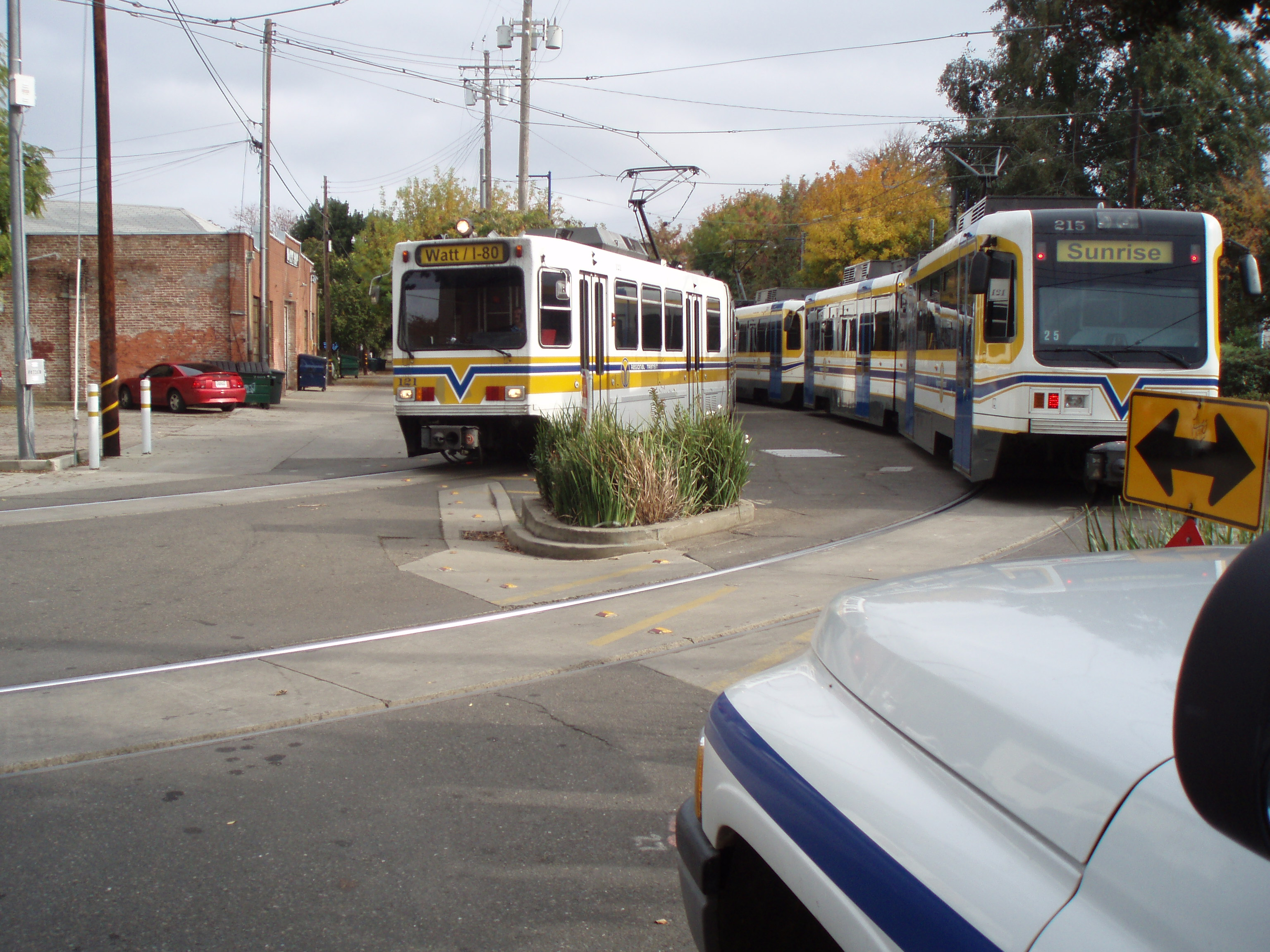 Trains arriving and departing at the 13th Street Station